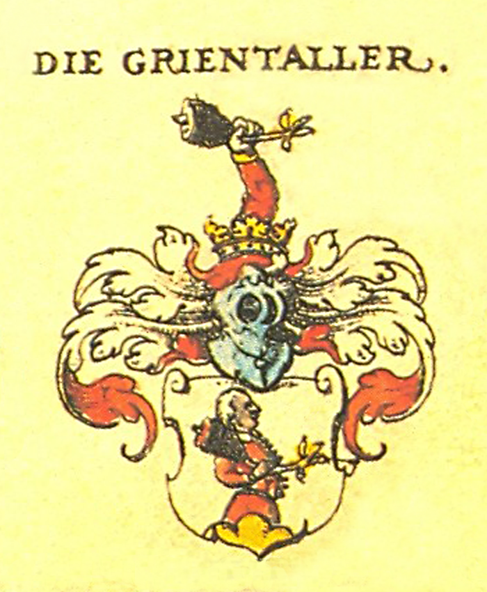 Coat of Arms of Grienthal (Grientaller)